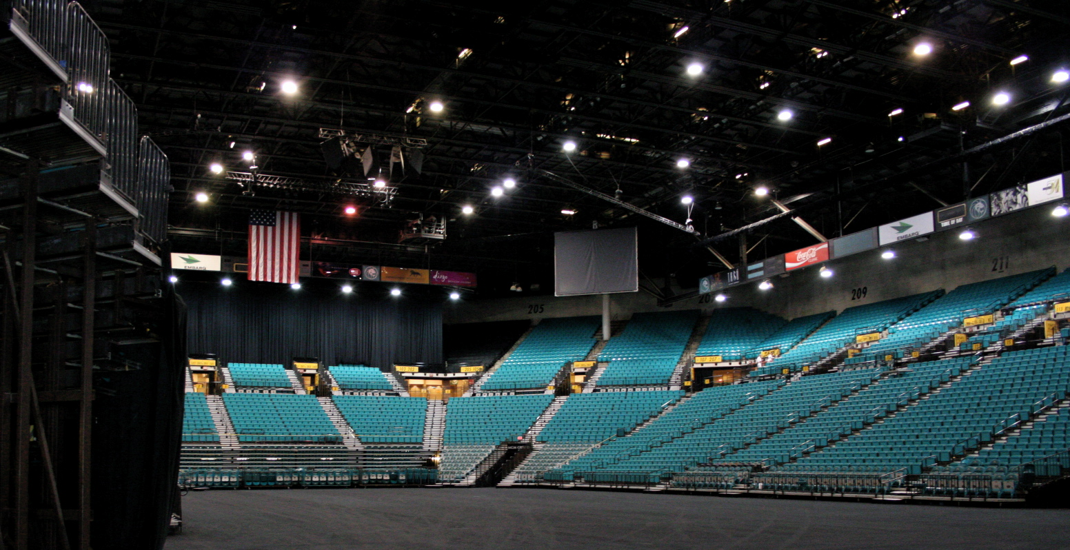 MGM Grand Garden Arena Interior - Paradise, Nevada U.S.A.